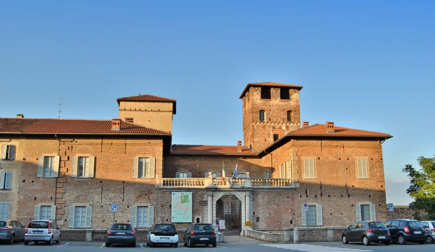 Castello Visconteo Fagnano Olona, Sede del Comune